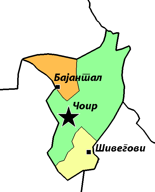 Translated map of Govisumber sum on Macedonian language